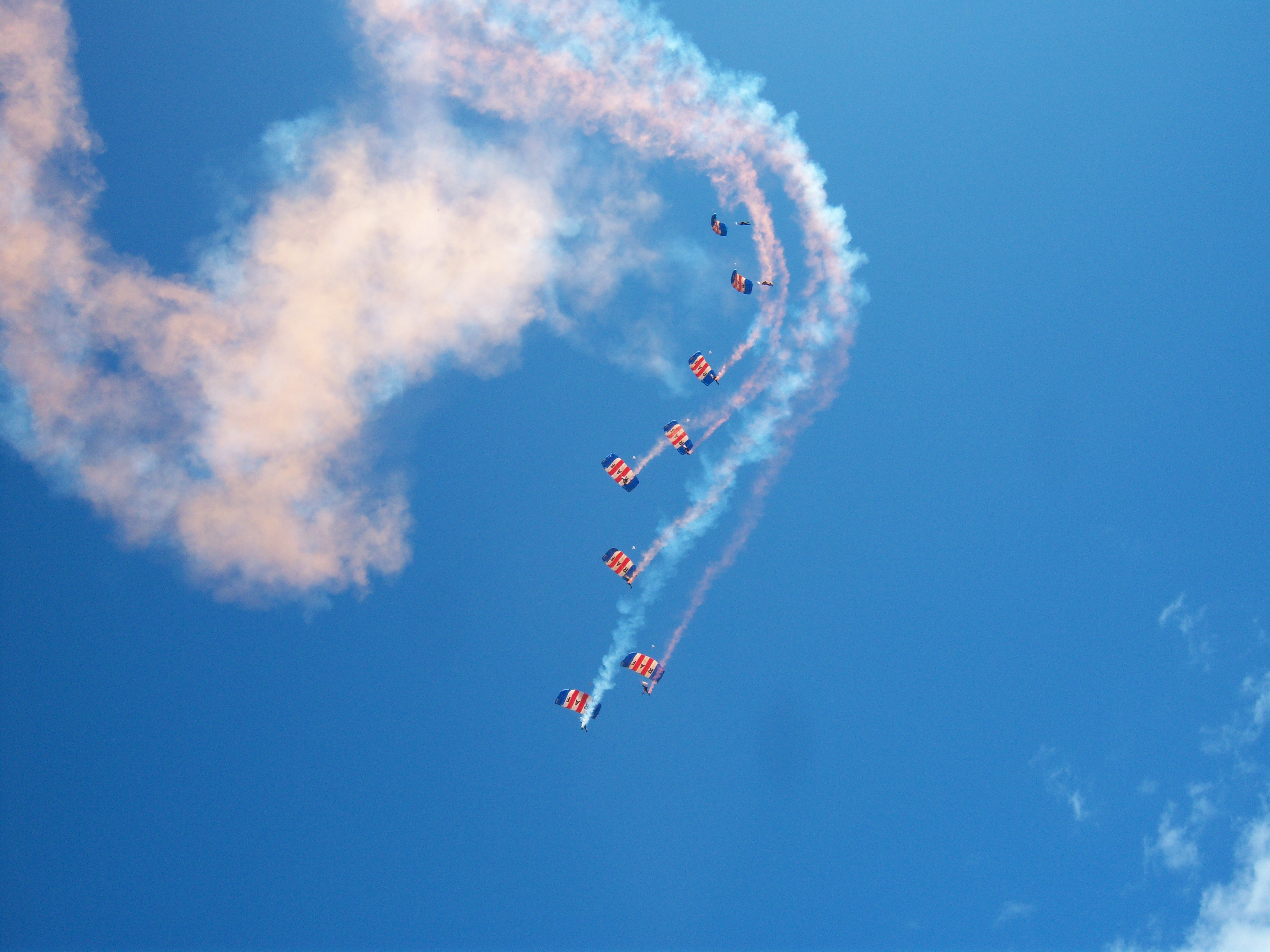 The RAF Falcons parachute display team at the 2009 Sunderland International Airshow